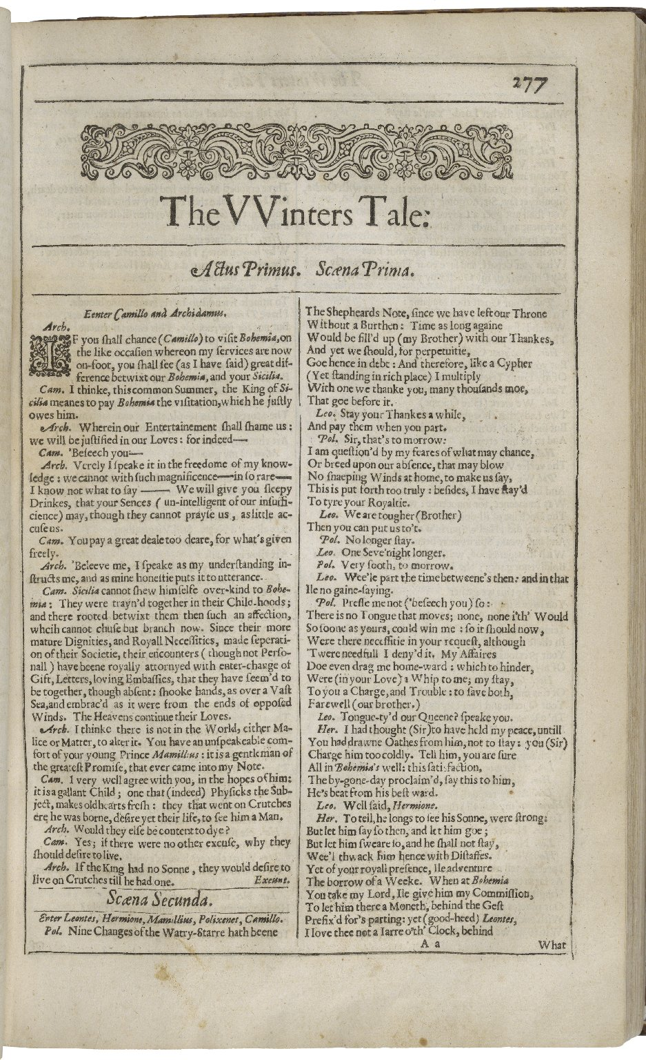 The title page of The Winter's Tale, printed in the Second Folio of 1632